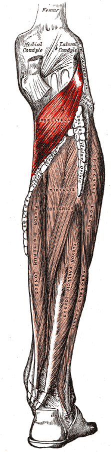 Musculus popliteus highlighted